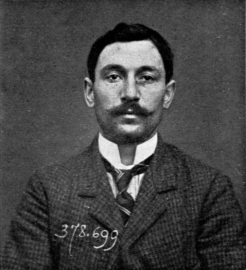 Mug shot of Vincenzo Peruggia, who was believed to have stolen the Mona Lisa in 1911.